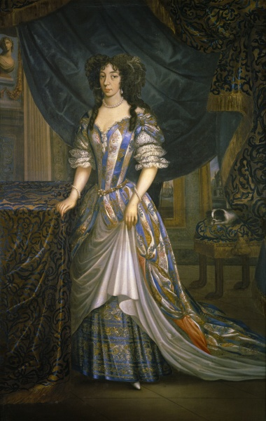 Marie Arnostka z Eggenbergu, rozená ze Schwarzenbergu